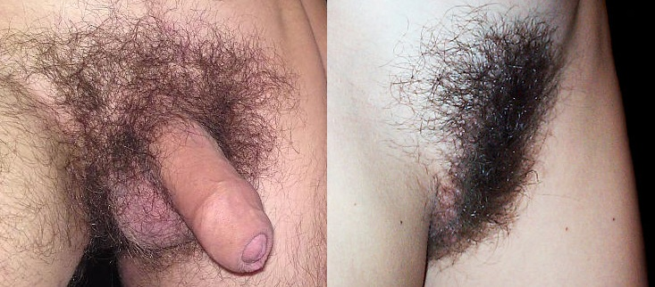 pubic hair on a man and a woman